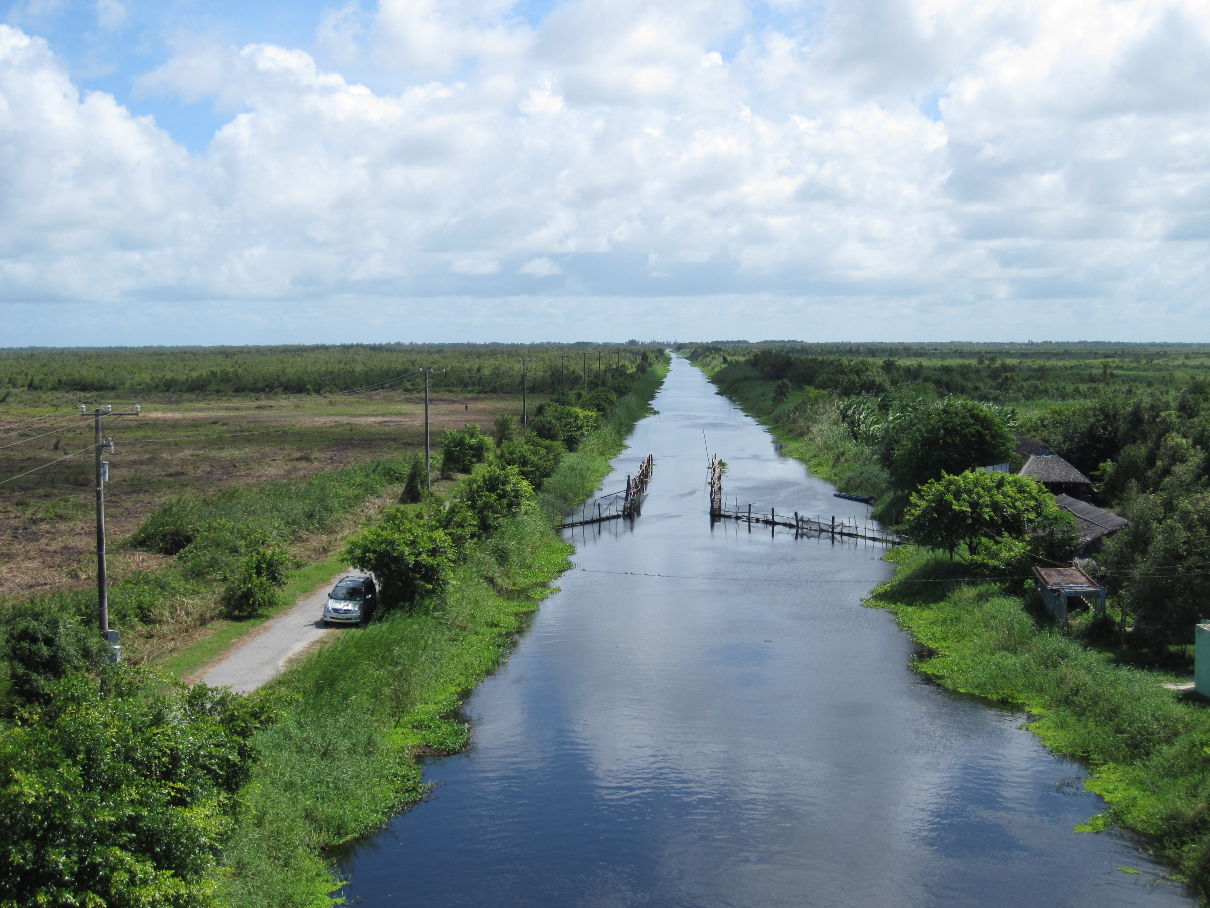 Rung U Minh Thuong khong con cay rung 2